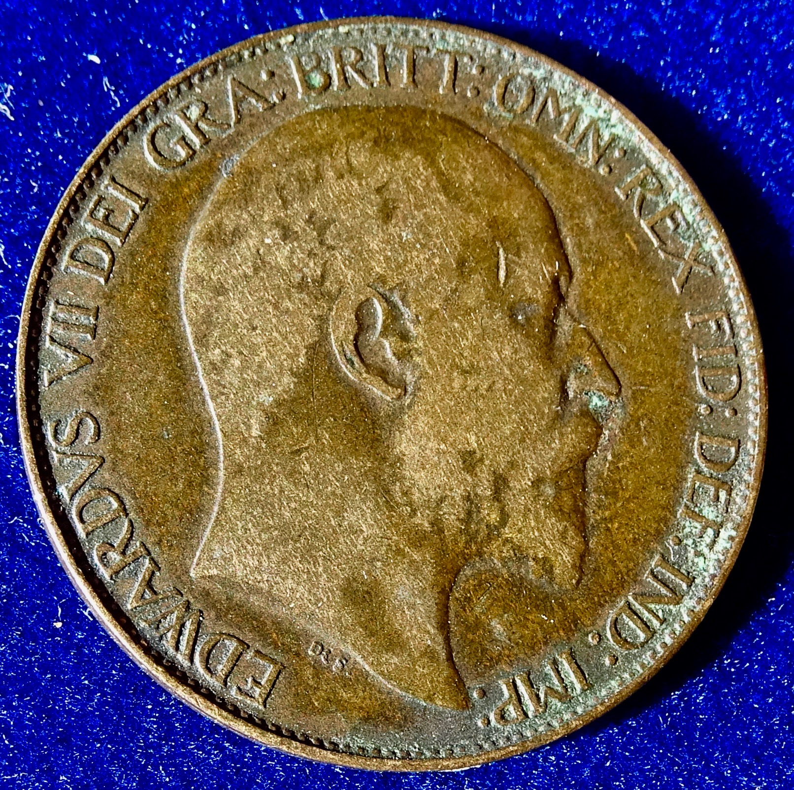 Great Britain dateless double Obverse Mule Halfpenny Edward VII 1902 to 1910, Error Coin. RARE. D. = 25 mm. 5.39 g Edward VII 1901-1910 Head r., surrounding: "EDWARDVS VII DEI GRA: BRITT: OMN: REX FID: DEF: IND: IMP:"/ Head r., surrounding: "EDWARDVS VII DEI GRA: BRITT: OMN: REX FID: DEF: IND: IMP:" KM 793 Medallist: DE S. (George William de Saulles), Sculptor, 1862 Birmingham - 1903 Chiswick, West London, England Condition: FINE. 2 one sided edge nicks at 12 and 2 o'clock.